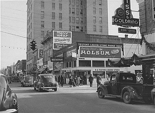 3rd Street, Alexandria, Louisiana, United States.